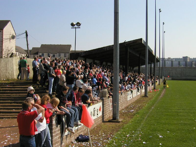 Picture from Firs Park in Falkirk.